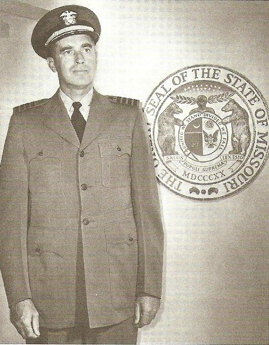 Captain William M. Callaghan, first commanding officer of the battleship USS Missouri, in his cabin aboard the ship. The state seal of Missouri is to his left. (US Navy photo in the National Archives:80-G-K-46841)